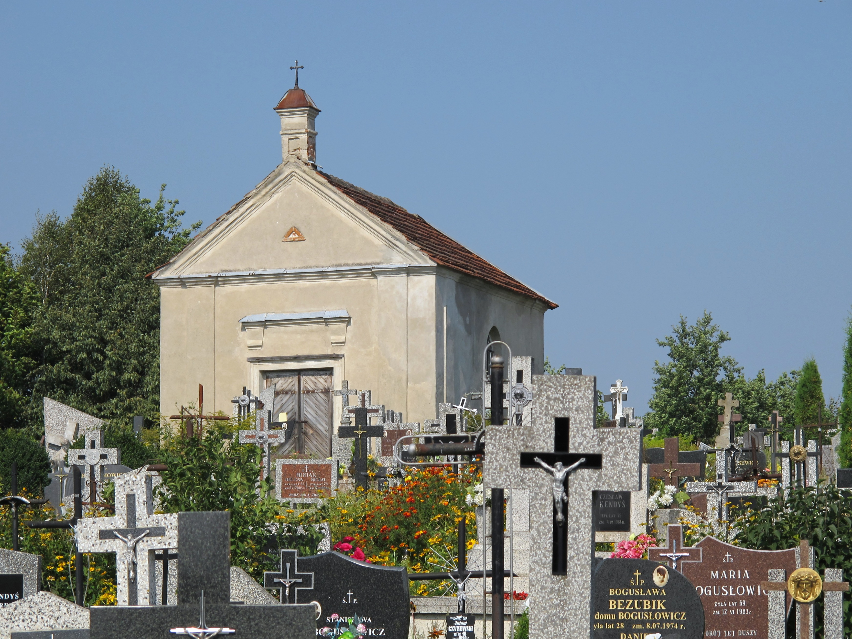 Chapel from 1872 at St. Anthony of Padua parish cemetery in Niewodnica Kościelna, gmina Turośń Kościelna, podlaskie, Poland